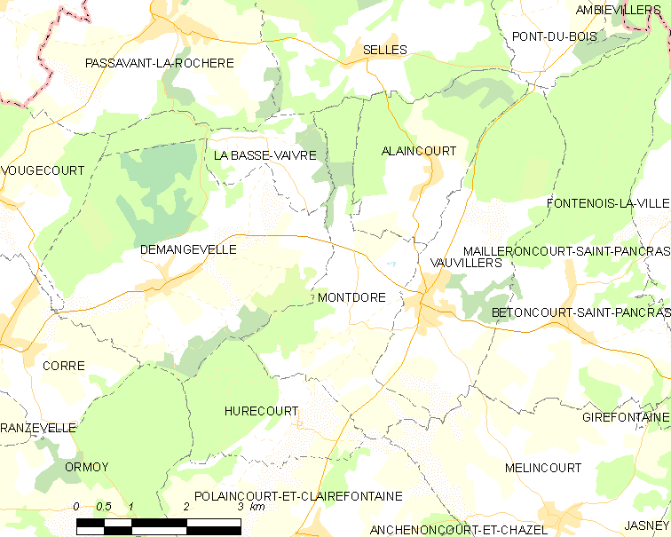 Map of French municipality